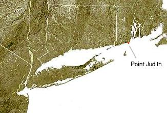 Point Judith is shown on the coast of Rhode Island in the United States. Based on original public domain image courtesy of NOAA © 2004 Matthew Trump